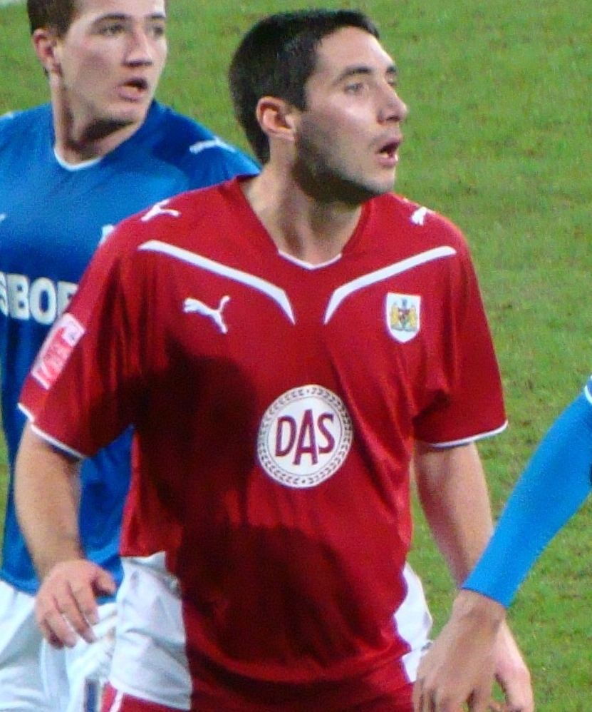 Bradley Orr cropped from, 19/01/10 Cardiff City V Bristol City, FA Cup 3rd Round. Cardiff City Stadium, Cardiff, Wales